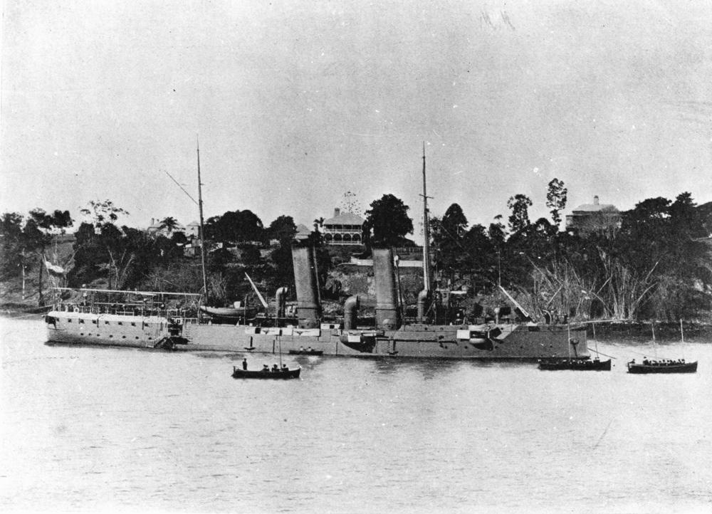 Panther (ship)